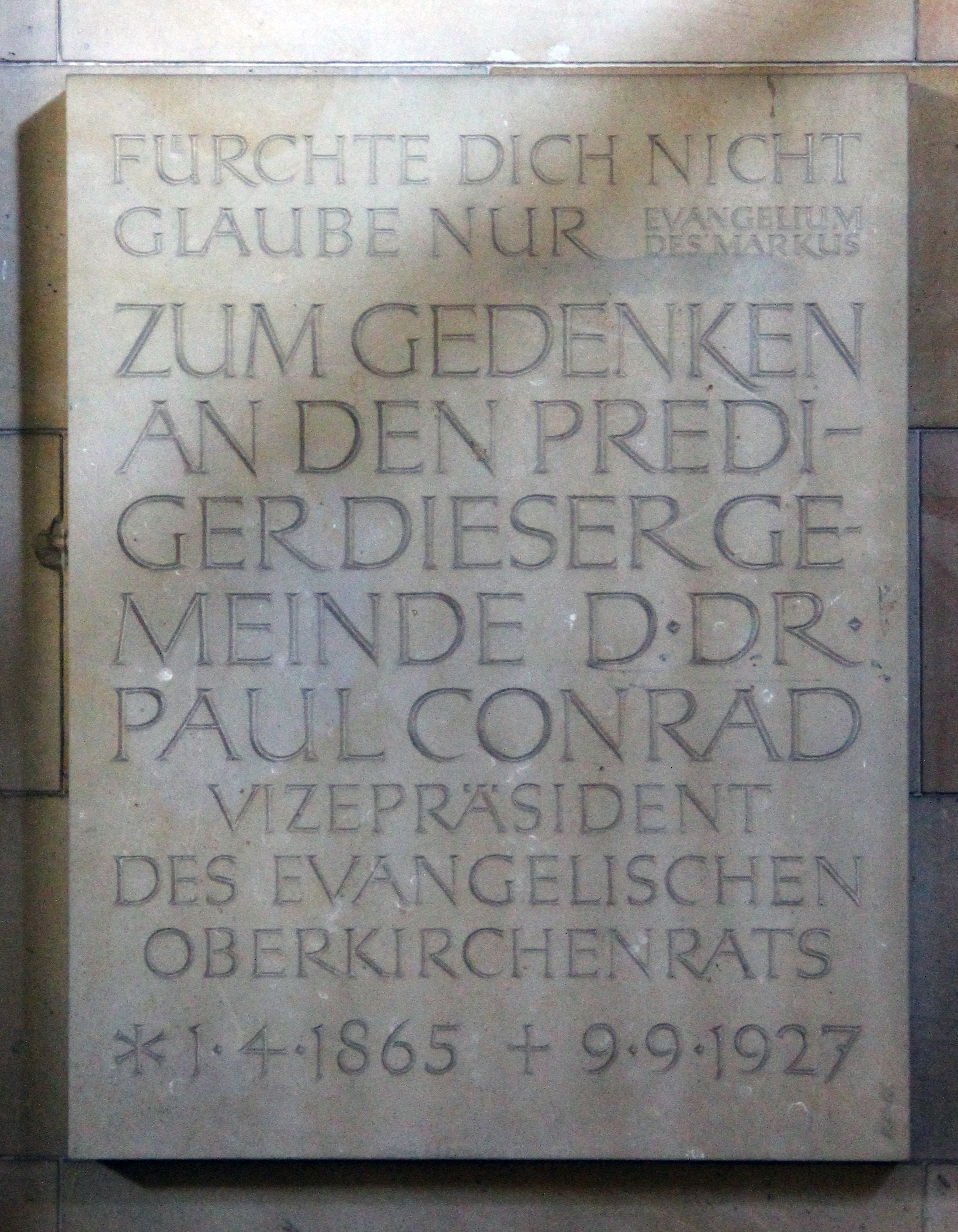 Memorial plaque, Paul Conrad, Breitscheidplatz, Berlin-Charlottenburg, Germany